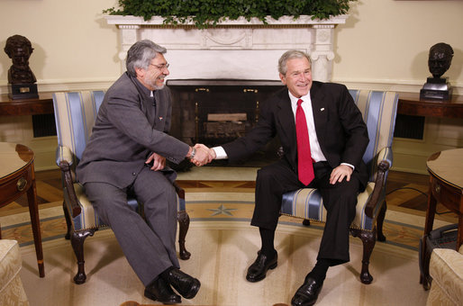 President George W. Bush and Paraguay's President Fernando Lugo shake hands Monday, Oct. 27, 2008, during their meeting with reporters in the Oval Office.